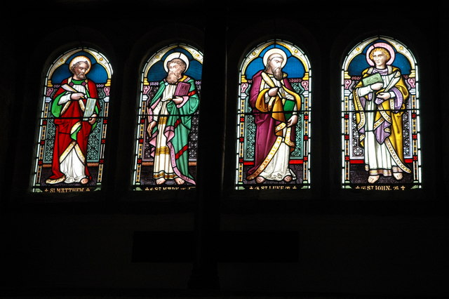 Stained glass window in St Kentigern's parish church, Caldbeck, Cumbria, representing the four Evangelists SS Matthew, Mark, Luke and John